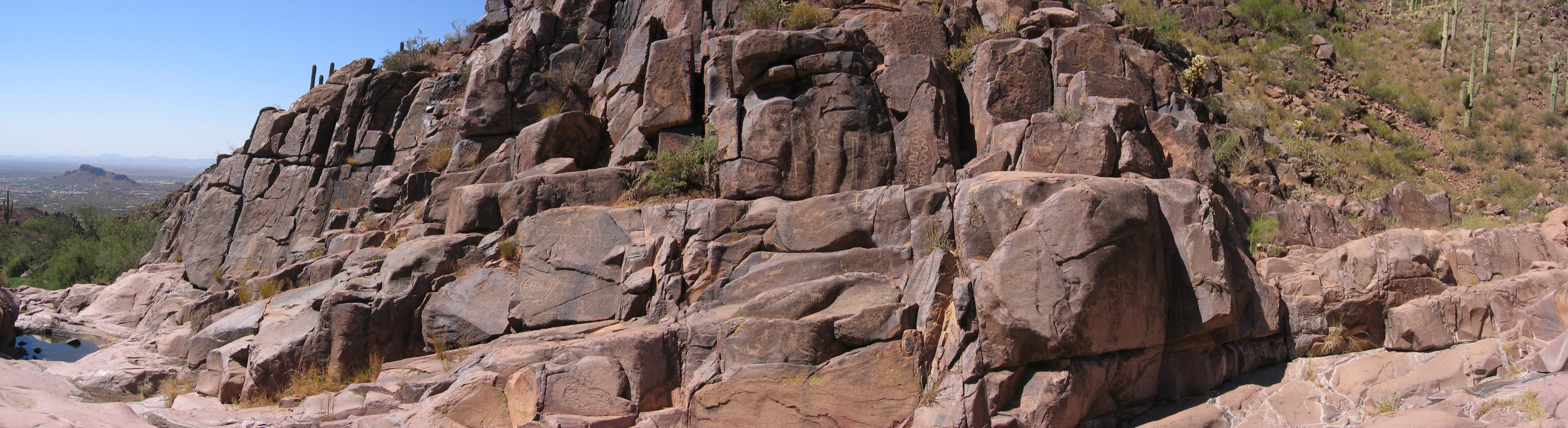 Superstition Mountain - Hieroglyphics Trail. Superstition Mountain is located east of Phoenix, Arizona.